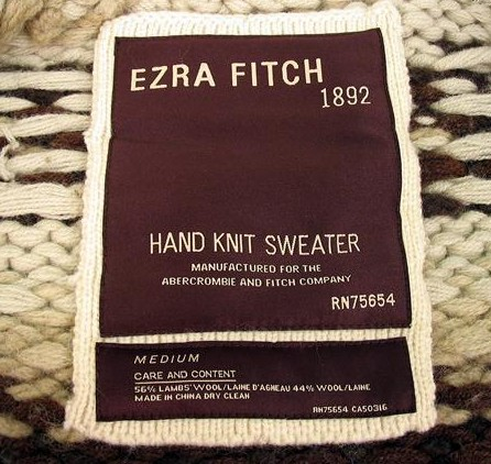 Uploaded 19:34, 21 February 2006 by User:Ruehl boi11386 who asserted GFDL-self "courtesy myself; scanned my Ezra Fitch product." reuploaded to remove generic image title.